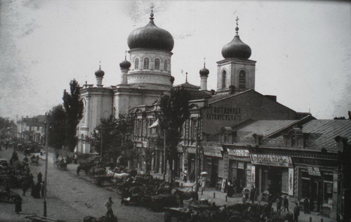 Cathedral in Lubny